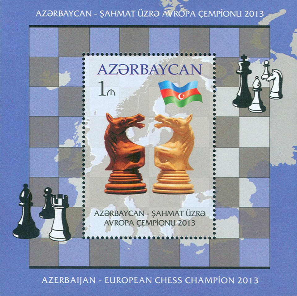 Azerbaijan - European chess champion - 2013. N 1135 - 1 manat. The stamp is devoted to a victory of the national team of Azerbaijan on chess in a team championship of Europe 2013